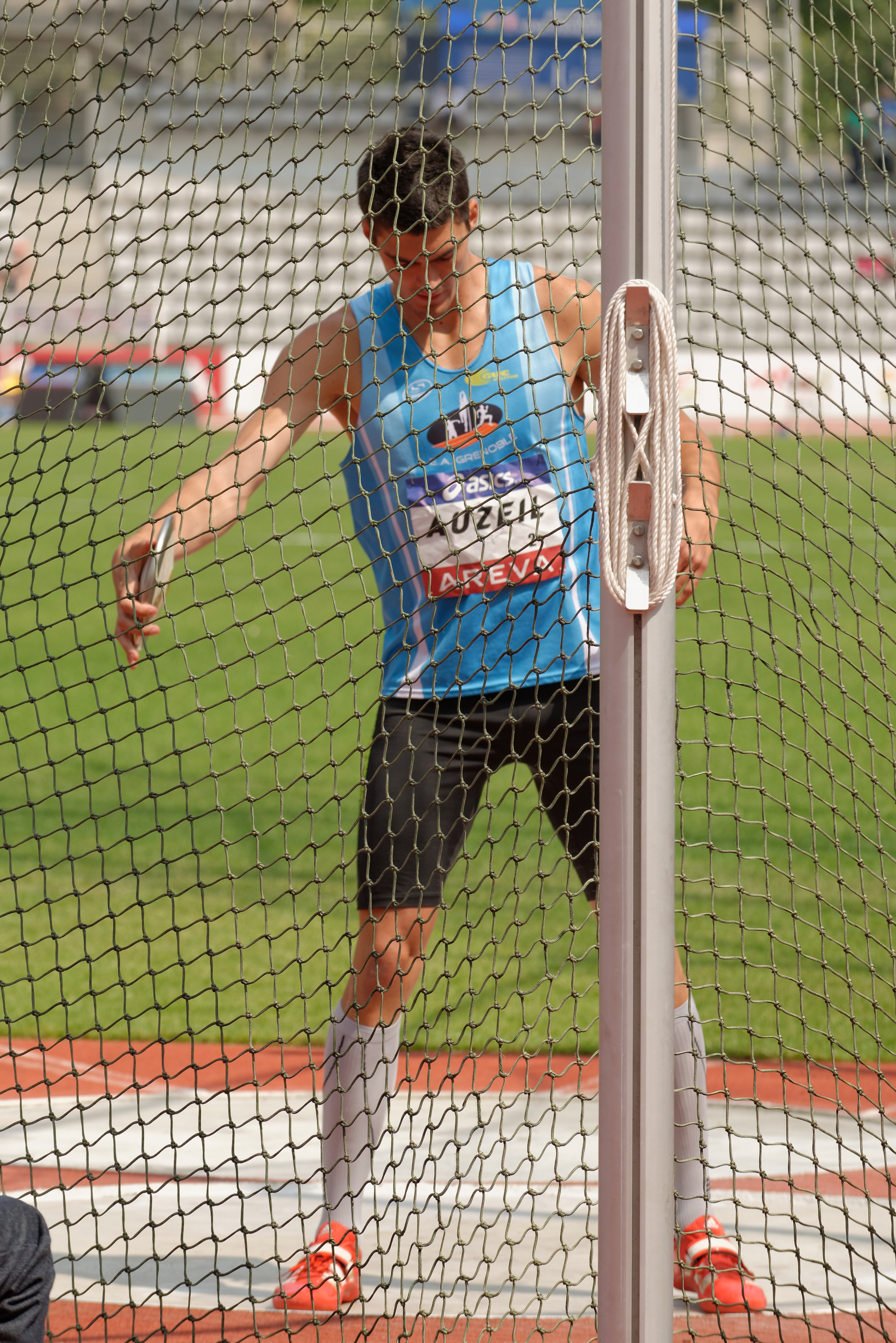 Bastien Auzeil competes in the men's decathlon discus throw during the French Athletics Championships 2013 at Stade Charléty in Paris, 13 July 2013.